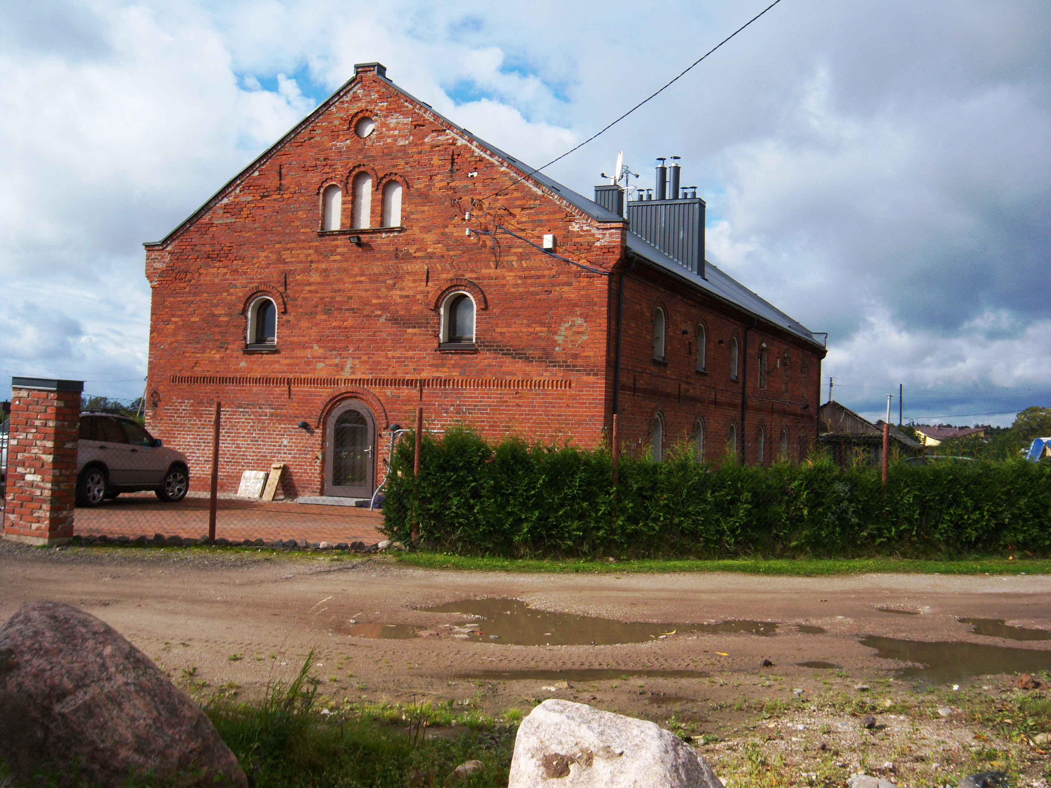 Former Noreikiškės manor, Kaunas district. Lithuania